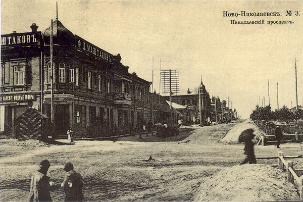 Nikolayevsky Prospekt, Novonykolayevsk.